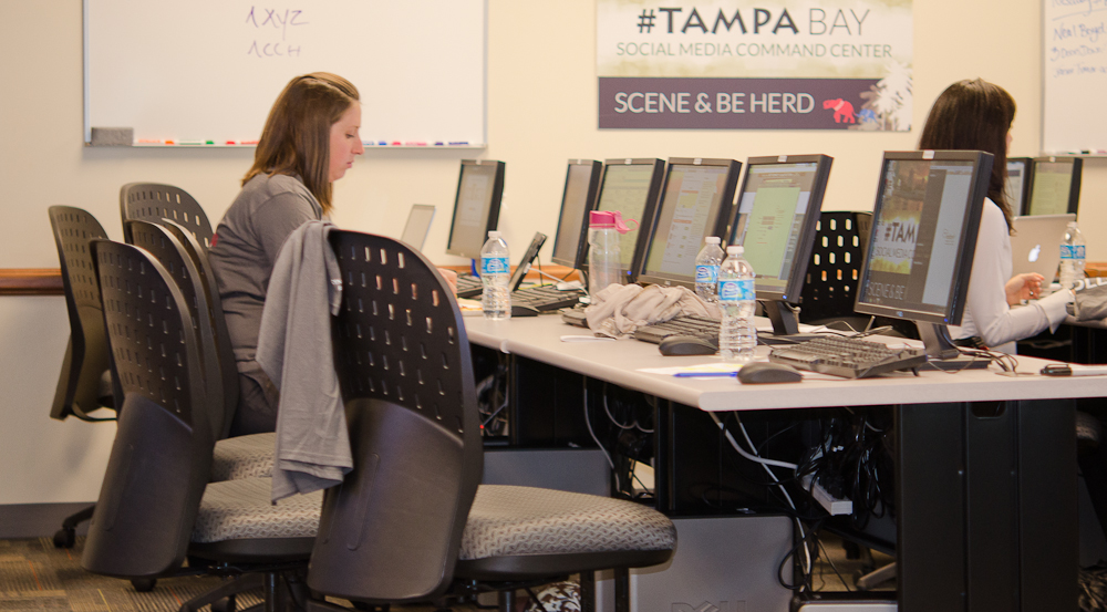 Social Media Command Center in Tampa, Florida, during the 2012 Republican National Convention.